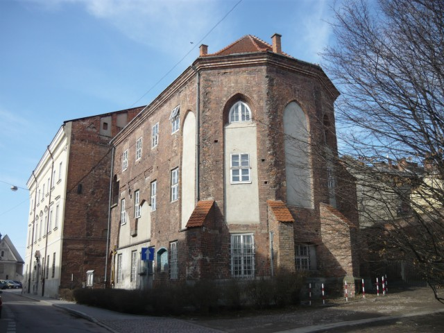 Polish Catholic Church in Tarnow